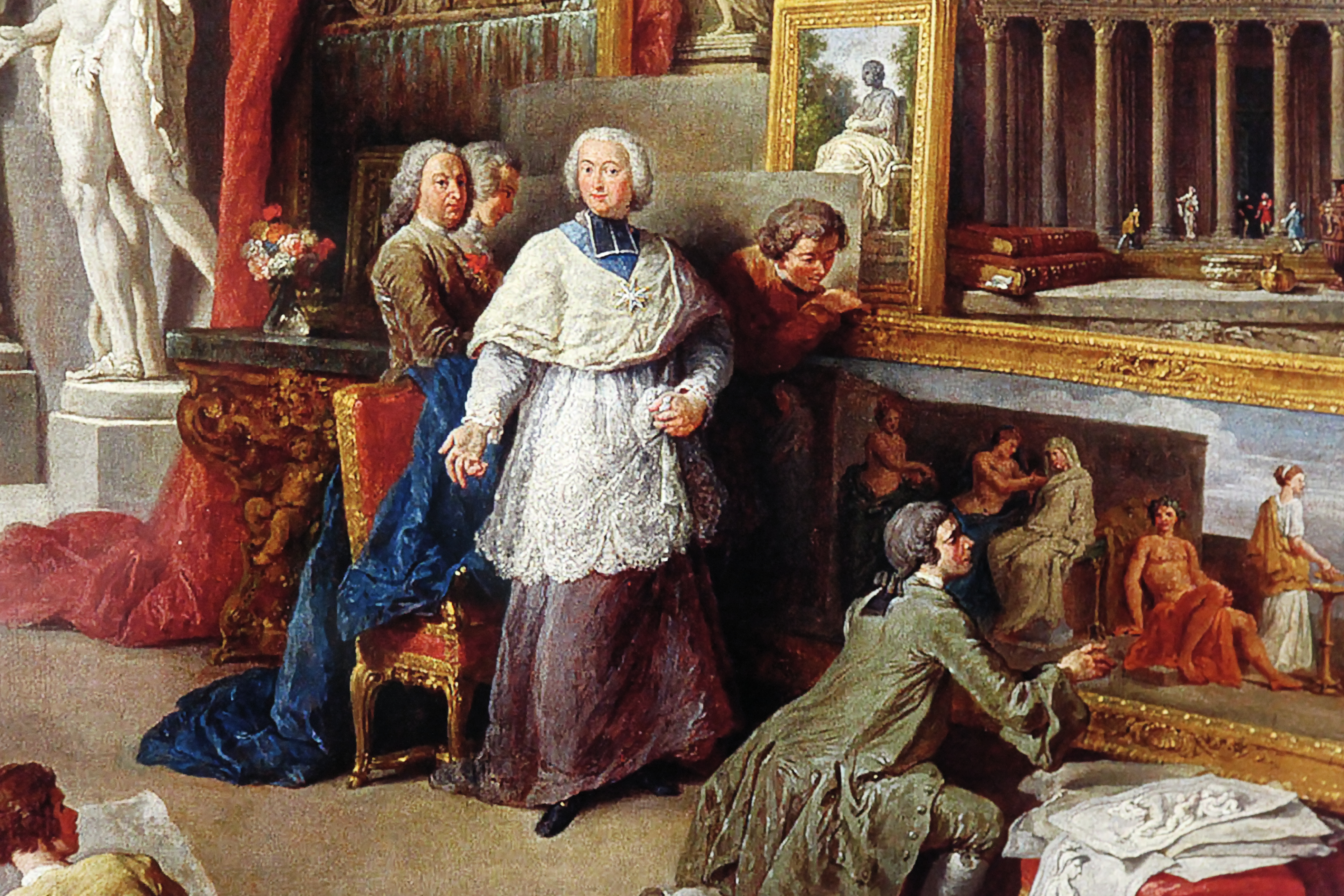 Ancient Rome by Giovanni Paolo Pannini, Marseille version, "Der schöne Schein" exhibition of replicas of well-known artwork in the Gasometer in Oberhausen